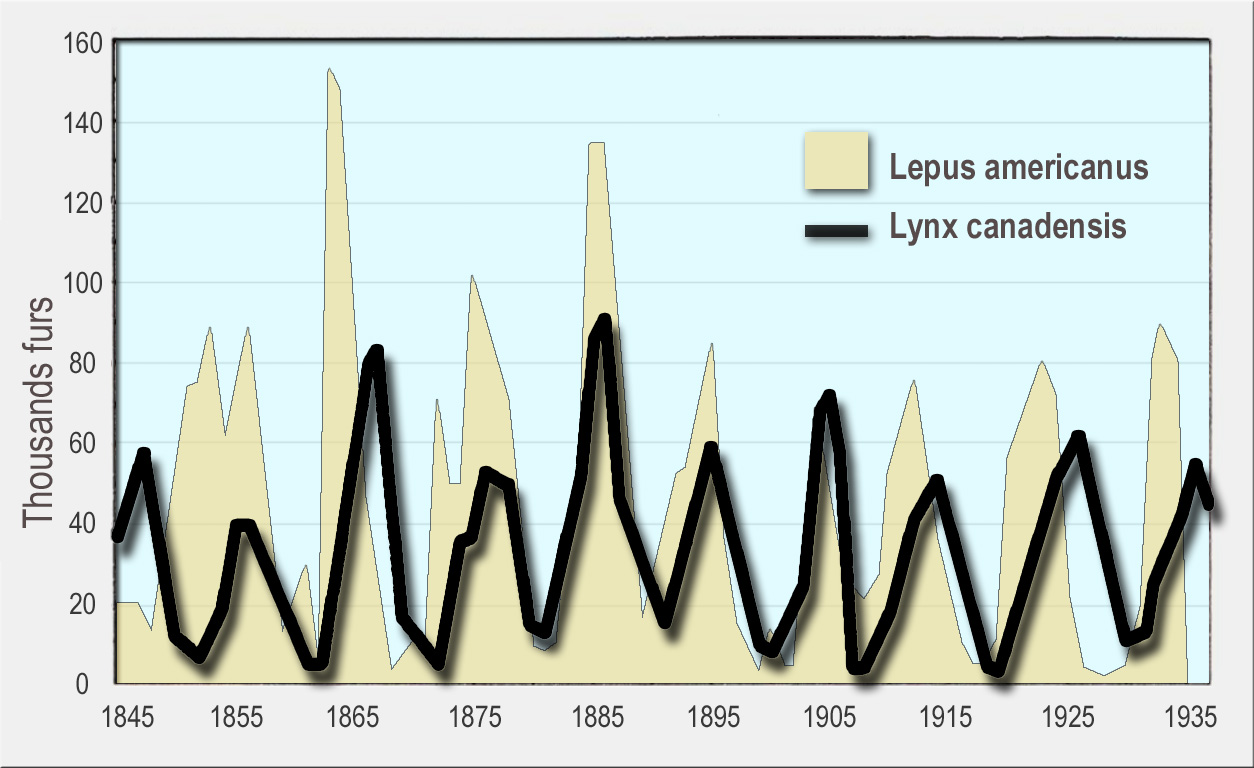 Canad lynx and American hare. This graph shows that the two species have cyclic population dynamics. Source: according to statistics collected by Odum archives (published 1953)